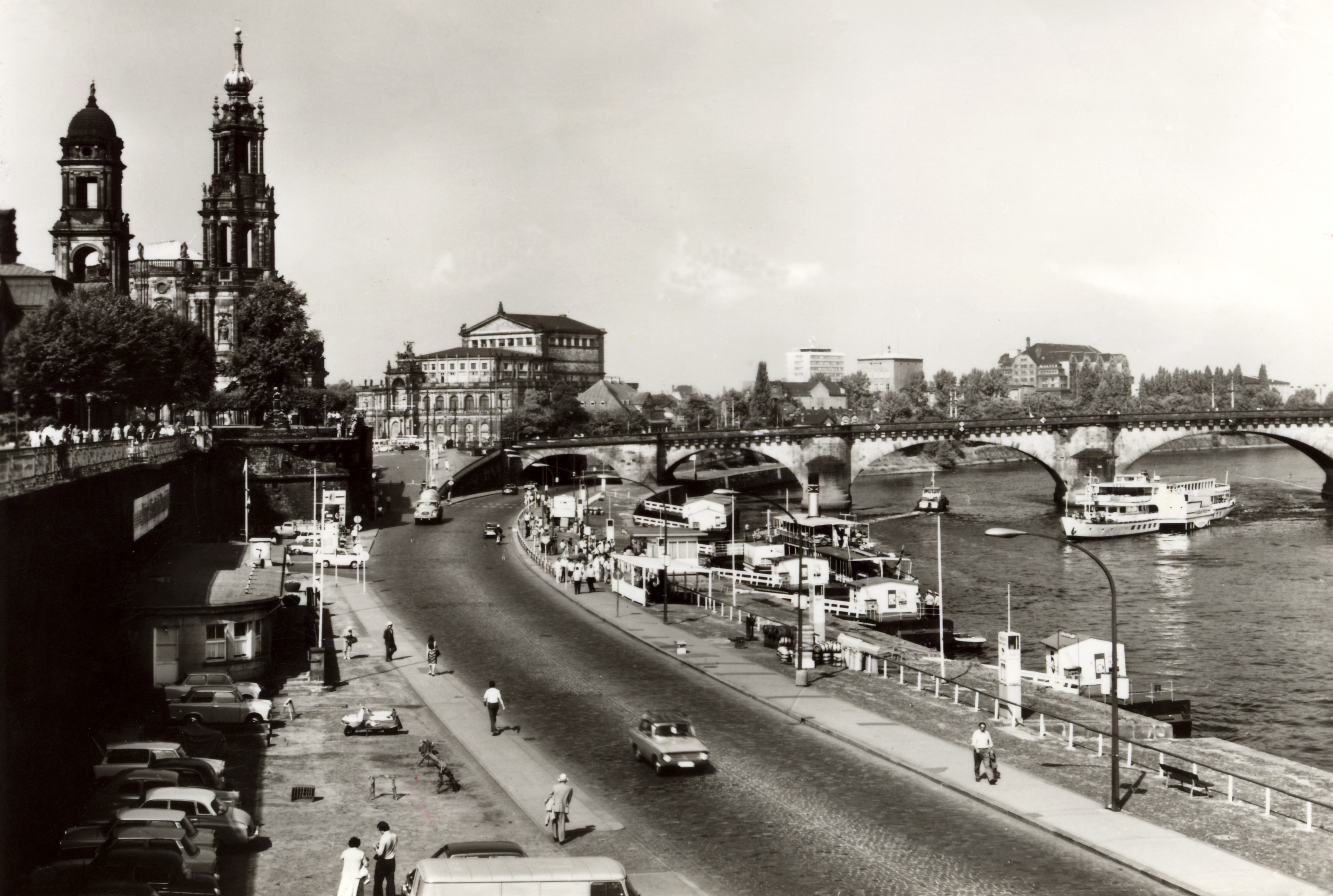 Photo from the Brühl's Terrace in Dresden. On the left hand is the Hofkirche, right of it the Semper Opera House. The Augustusbrücke bridge leads over the elbe river. (The area in the background has been renewed in the 1990s and is now called „New Terrace“ - compare with the photo from 2006.)